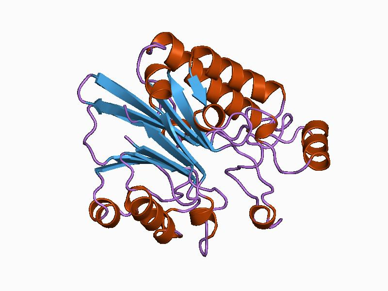 Cartoon representation of the molecular structure of protein registered with 1ako code.